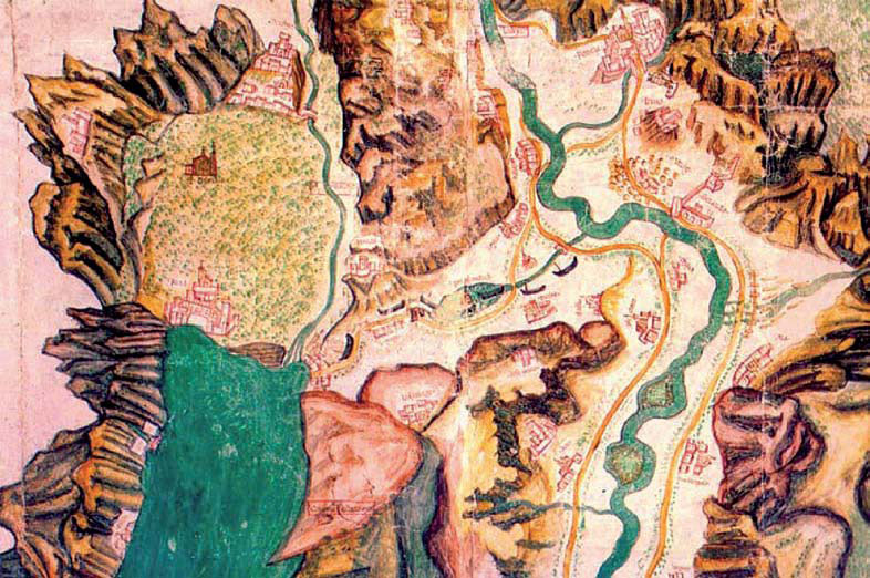 Galeas for Montes - Map of the route taken by the fleet through the valley of Loppio, by the Adige river to the Lake Garda Vèneto: Galeas per Montes - Mappa del percorso compiuto dalla flotta attraverso la valle di Loppio dal fiume Adige al lago di Garda Vèneto: Galeas per Montes - Mapa del percorso fato da la flota venesiana atraverso la vale de Lopio, dal fime Adexe al lago de Garda